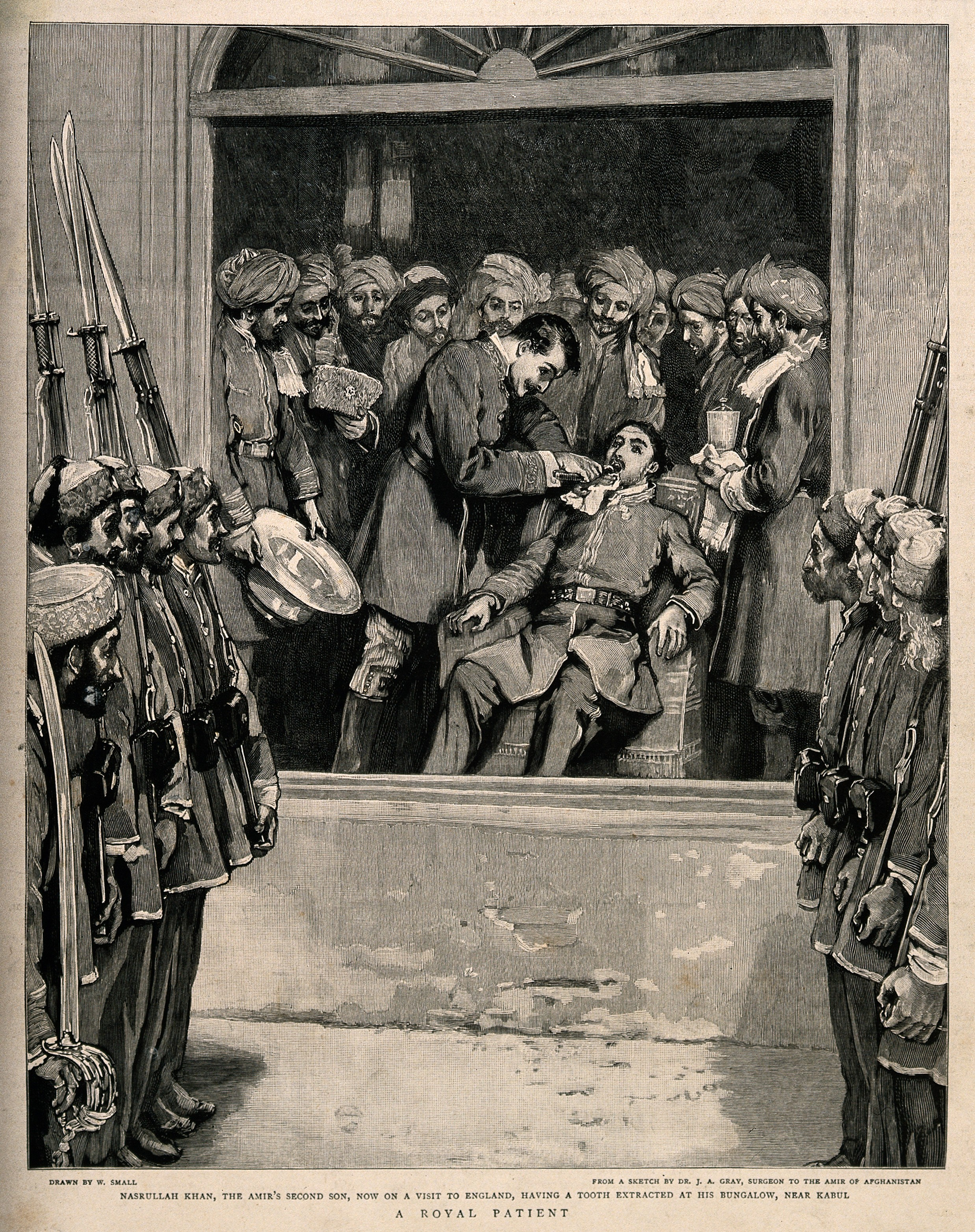 Nashrullah Khan (the Amir of Afghanstan's son) having a tooth extracted in front of the soldiers of his father's army. Wood engraving after W. Small after Dr. J.A. Gray. Iconographic Collections Keywords: William Small; Nasrullah Khan; J.A. Gray